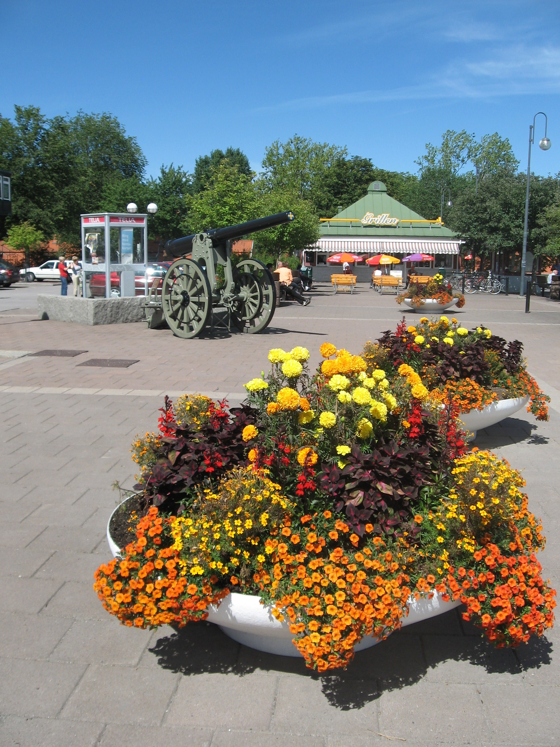 Flowers in the center of Finspång, Sweden